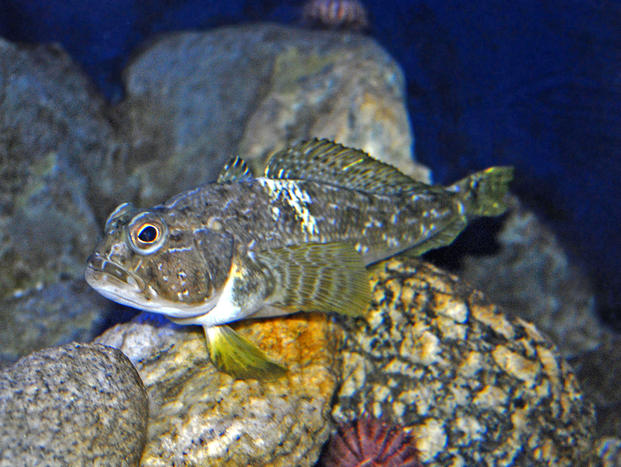 Trematomus bernacchii. On display at the Aquarium of Genova